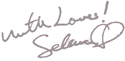 Autograph by Selena.